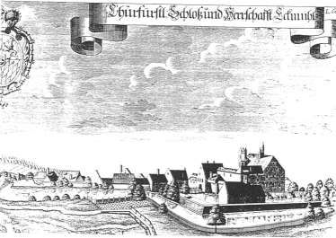 copperplate engraving of Michael Wening (1645–1718) of Schloss Eggmühl